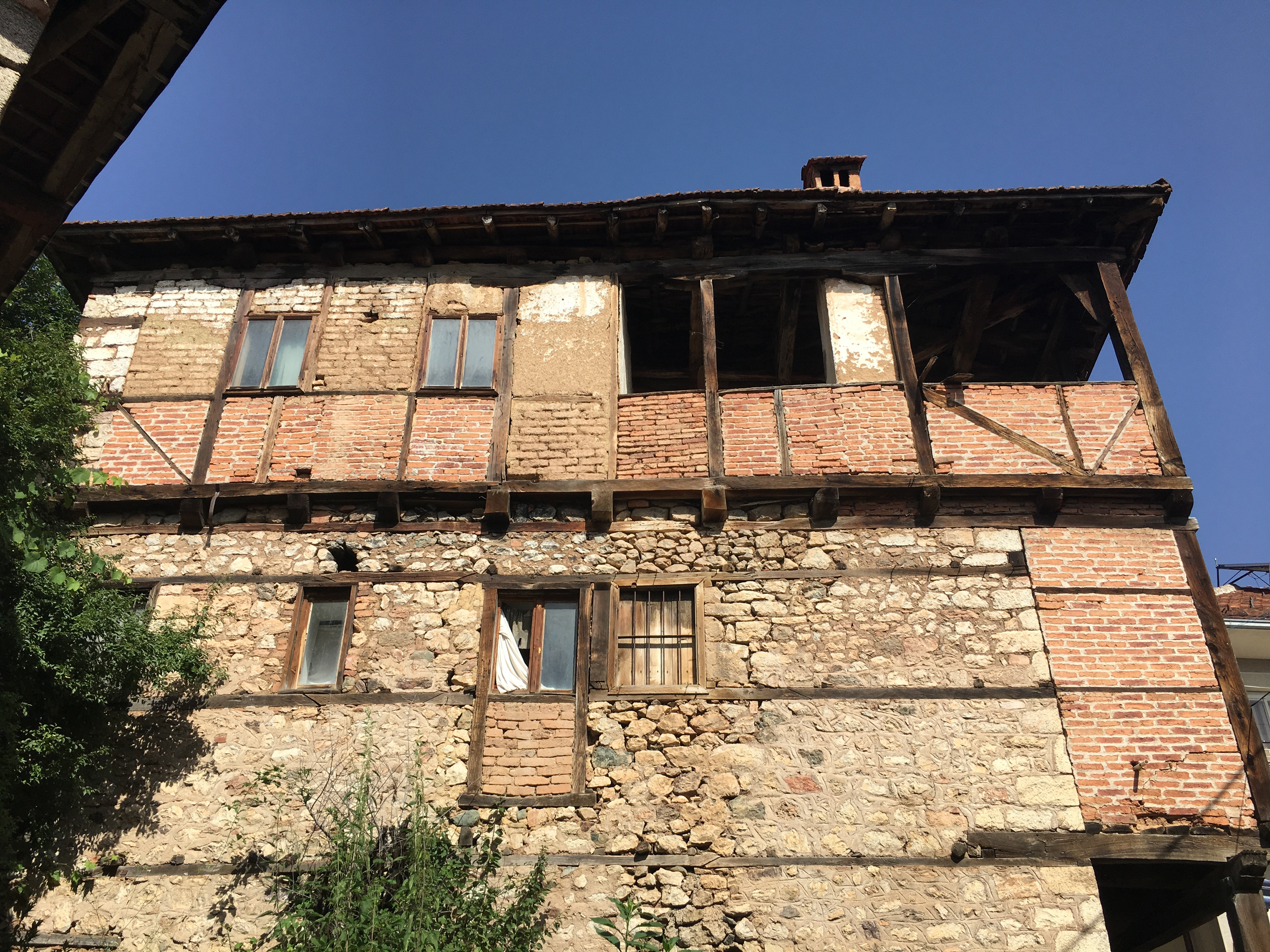 House of Kalajdžievci in the village of Vevčani